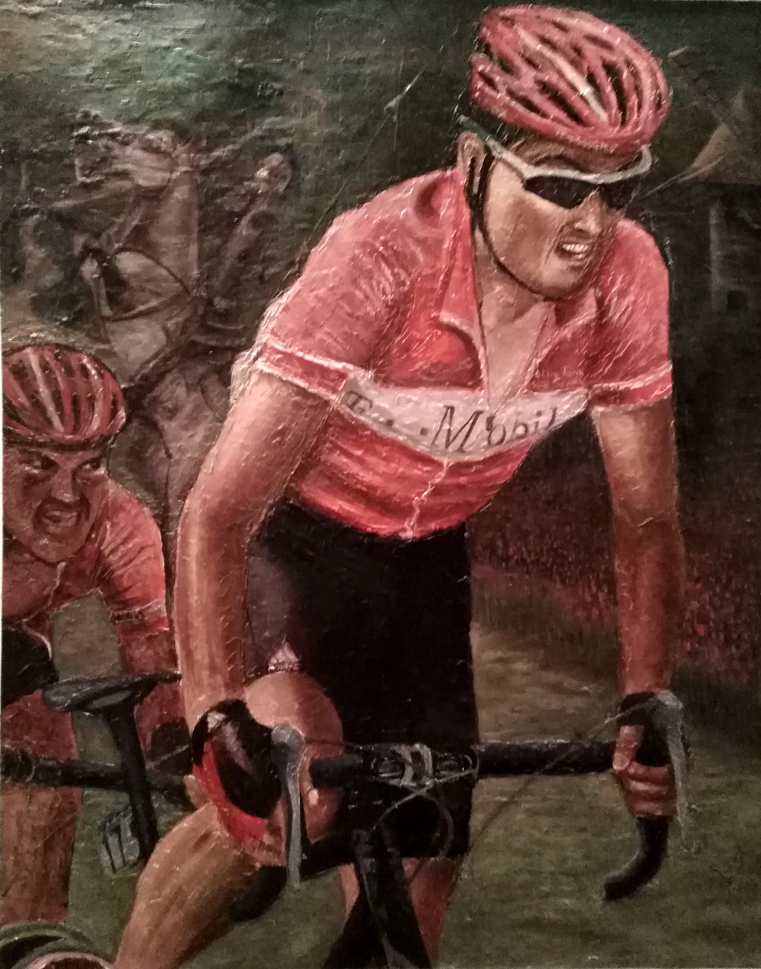 Óscar Sevilla by Weimar Roldán